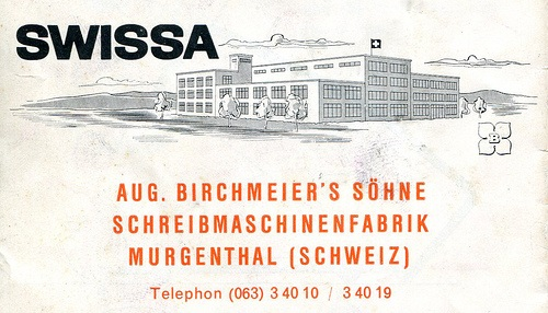 (deutsch) Auch gültig für die Patria Schreibmaschine. Quelle: Sammlung H.&M. Frei 2013